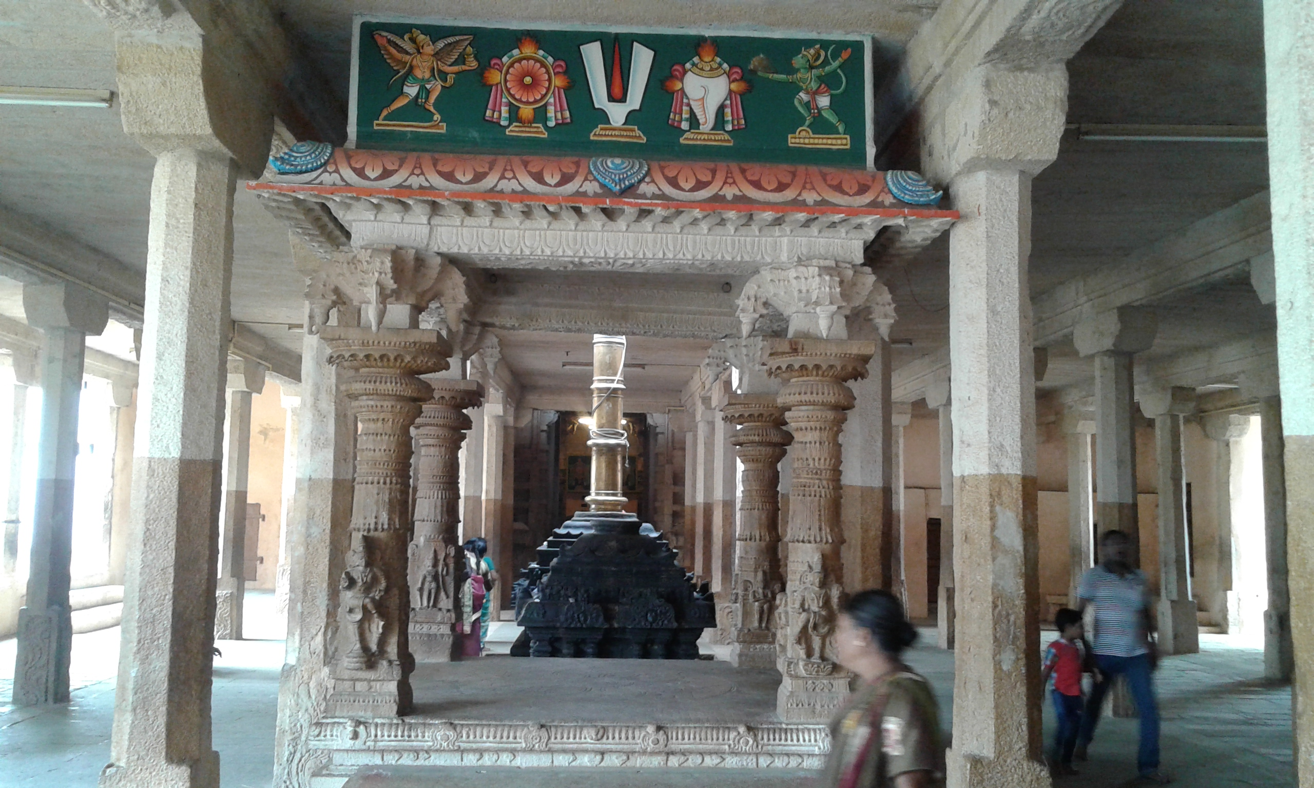 Azhwar Thirunagari